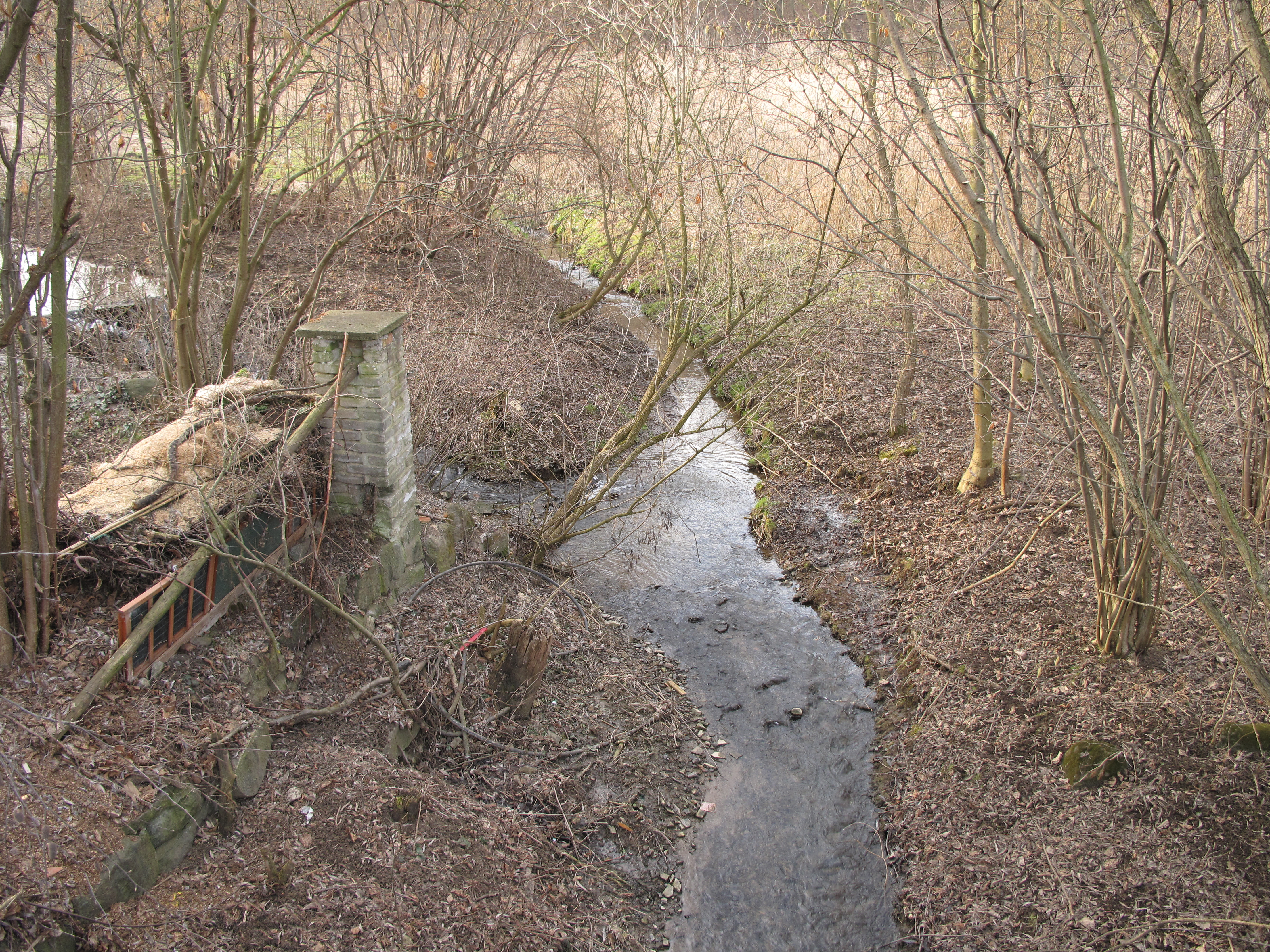 Stříbrný potok (stream) in Běleč village (Liteň municipality, Beroun District, Czech Republic. Project: Vodstvo